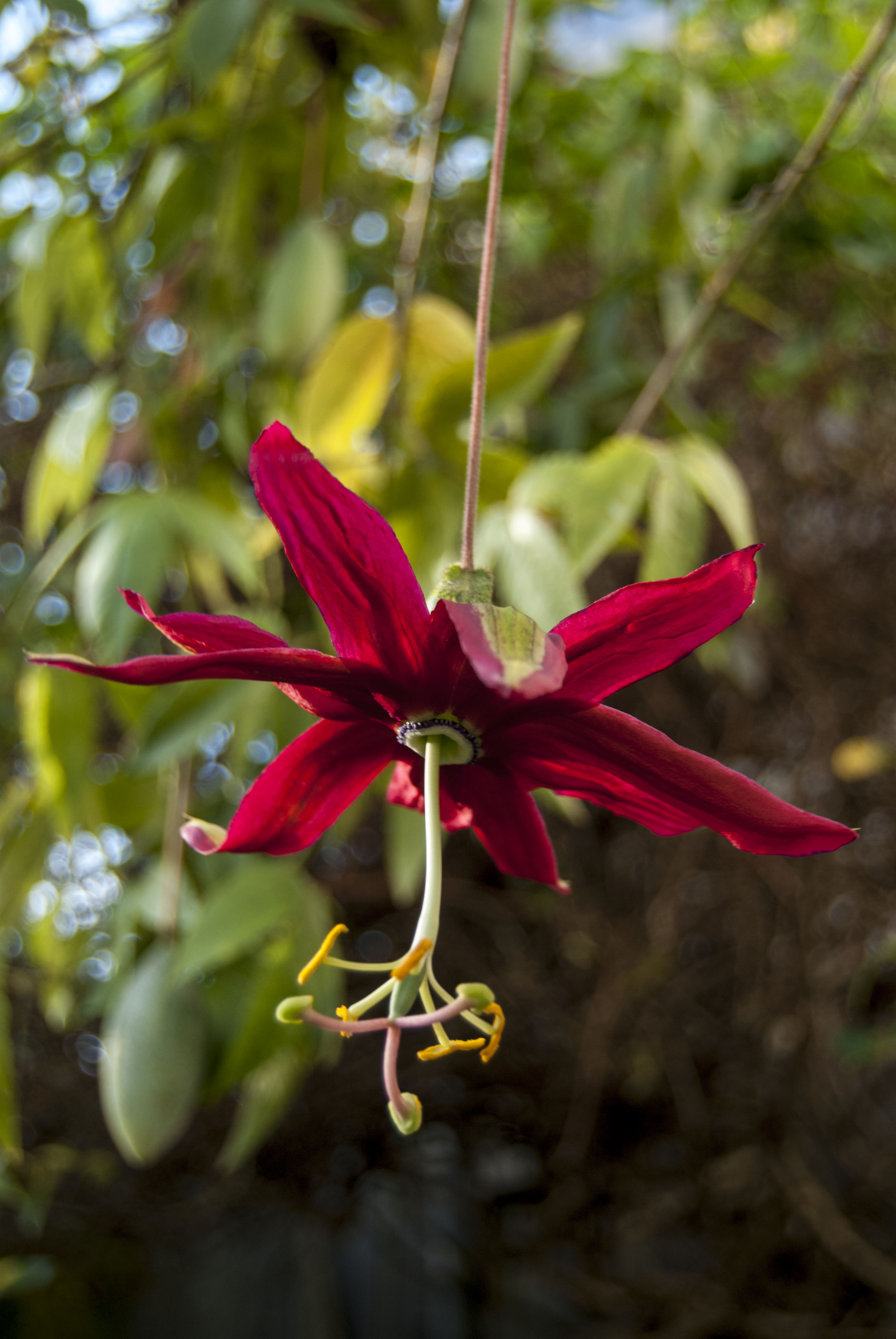 Passiflora antioquiensis grown in San Francisco